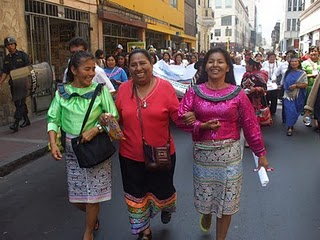 Marchando con las hermanas indiginas.